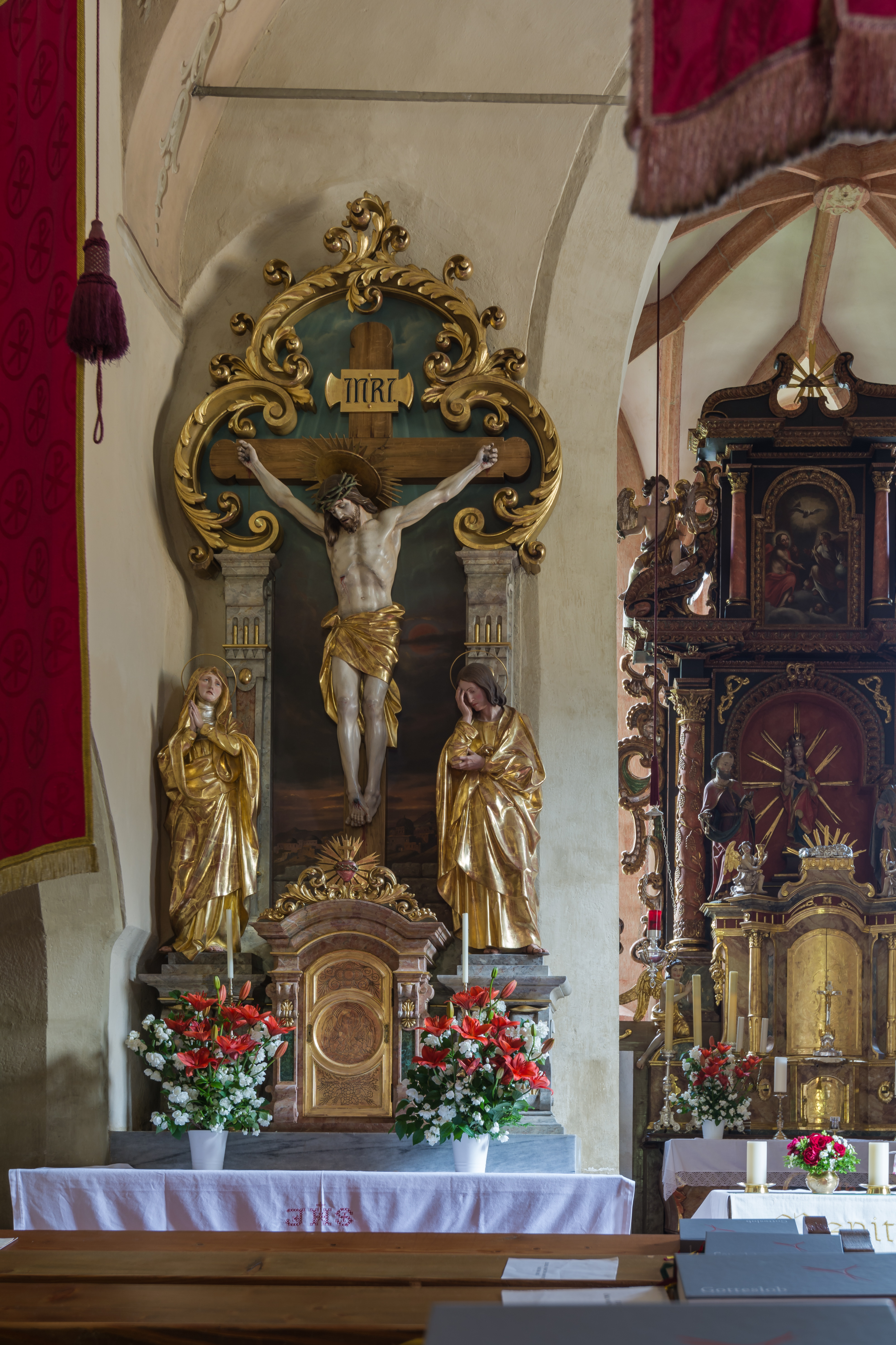 The lower parts of the side altar (altar of the cross) in the parish church of saints Peter and Paul in Salla is made up of marble which was extracted close to the village.